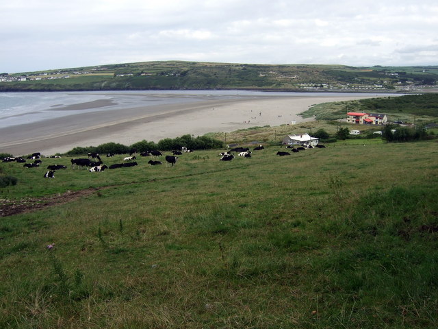 View over Poppit Sands Beyond the foreground pasture, the Inshore Rescue Boat station and the sands with Cardigan Bar stretching out across the mouth of the estuary. Gwbert on the far left across the water.